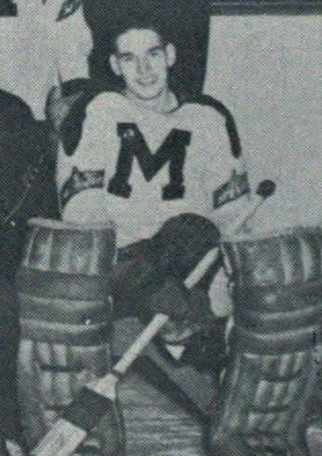 Gerry McNamara, circa 1953